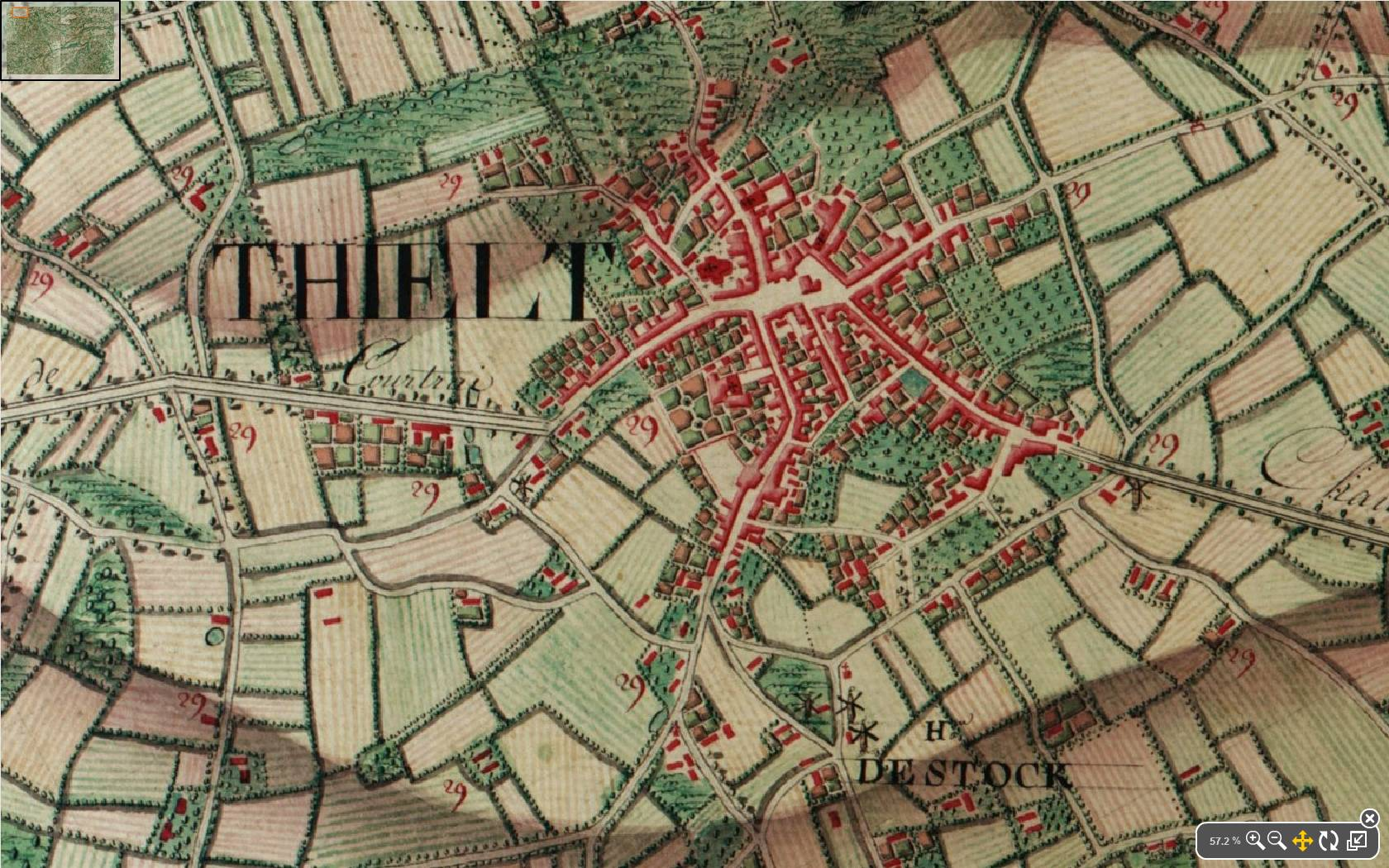 Tielt,_Belgium,_Ferraris,_1775.jpg